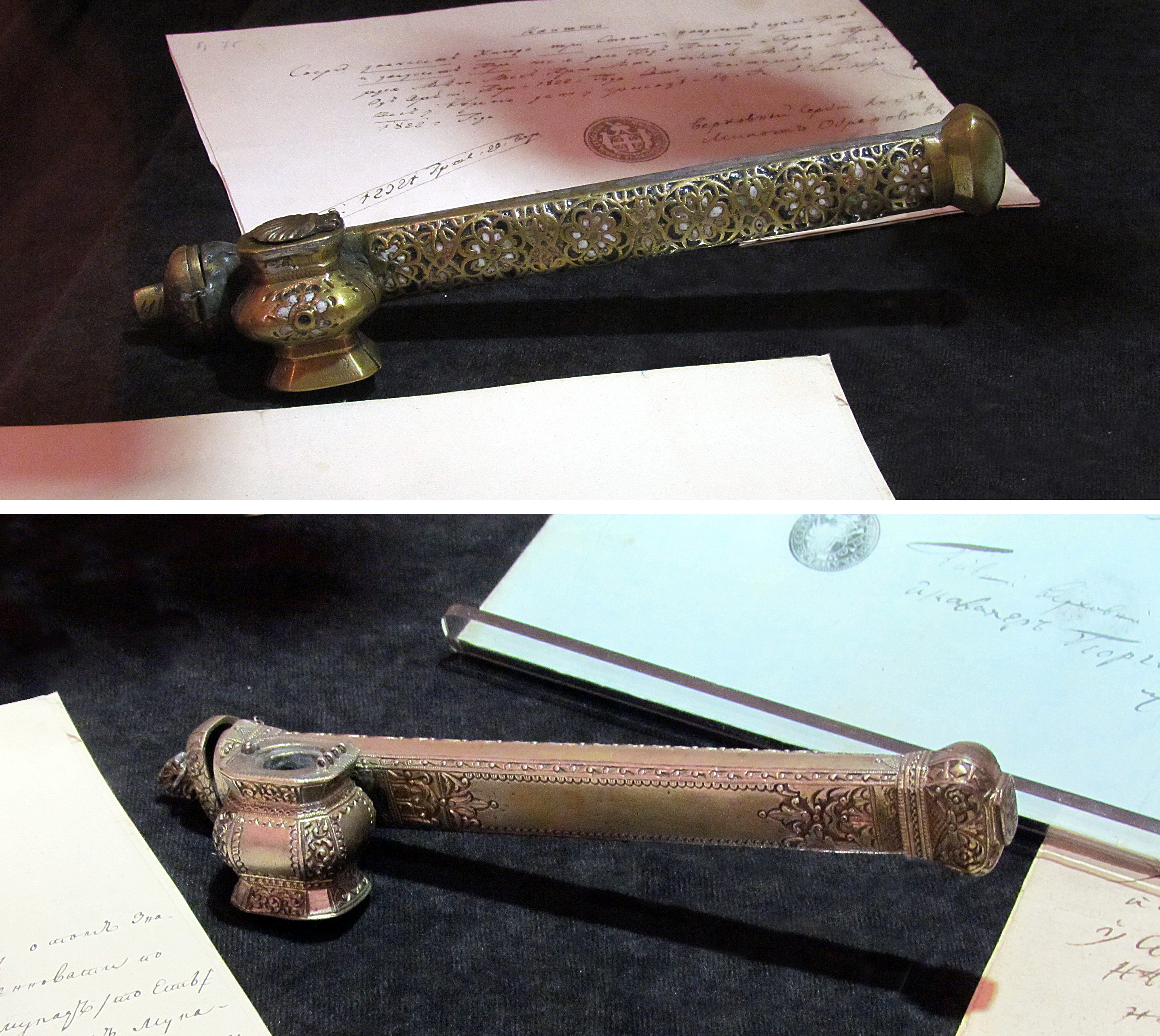 Divits from Historical Museum of Serbia